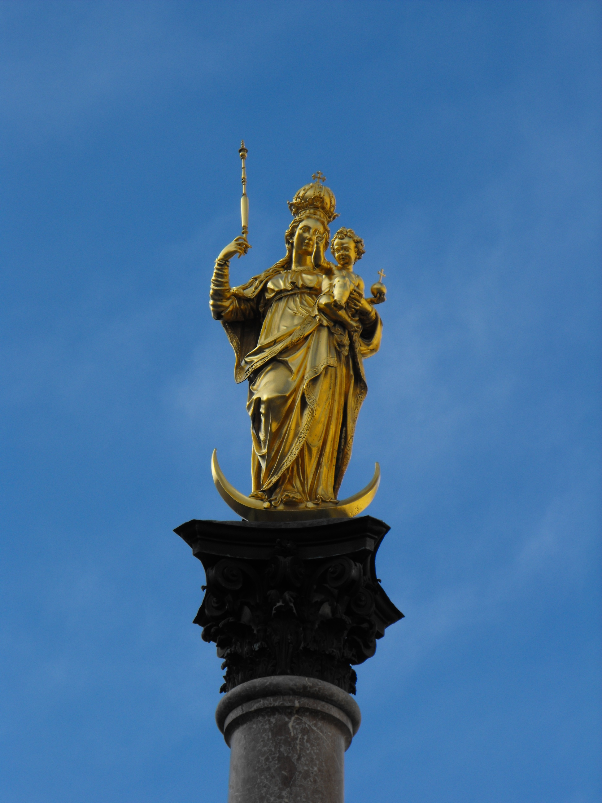 "Mariensäule", Marienplatz, Munich, Germany.